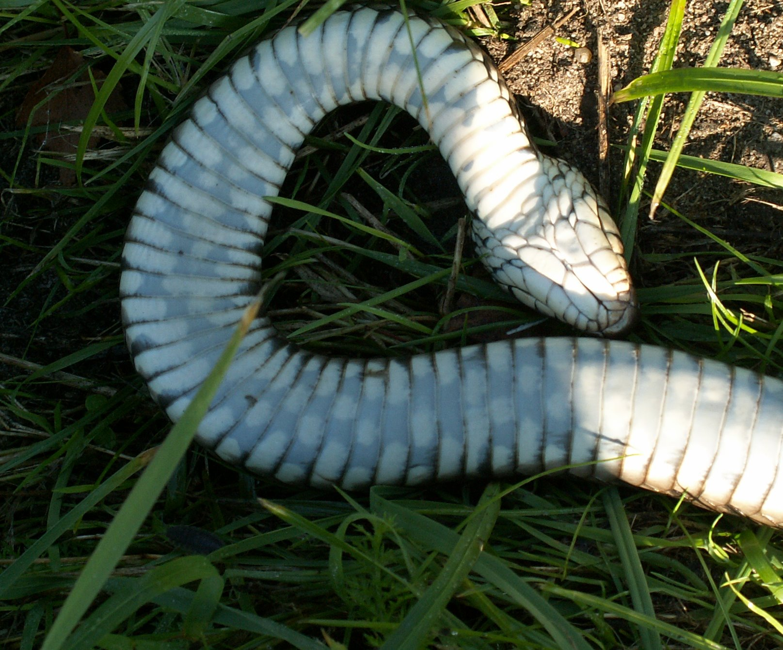 Grass snake playing dead and showing the unique black and white pattern on the belly, because this snake is about to change its skin the pattern is not so clear, Renkum, The Netherlands